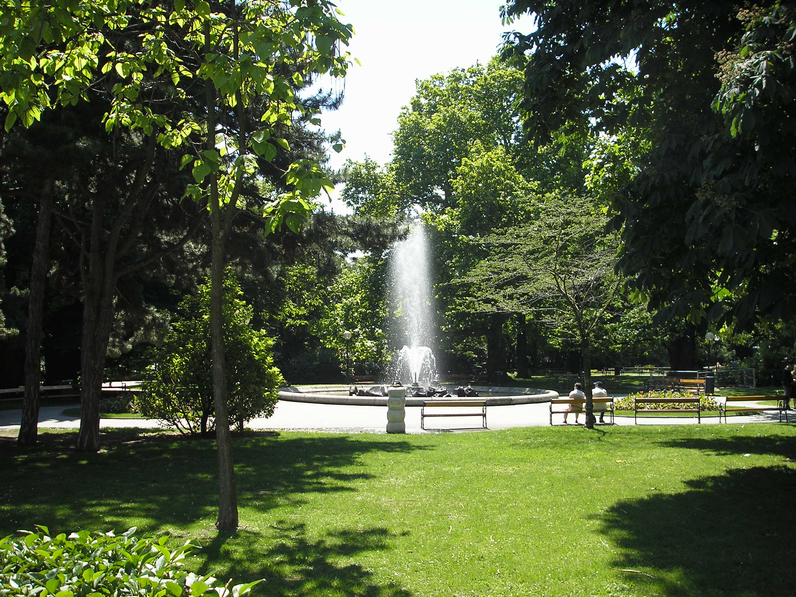 The Rathauspark next to the Rathausplatz and the Rathaus, Vienna.